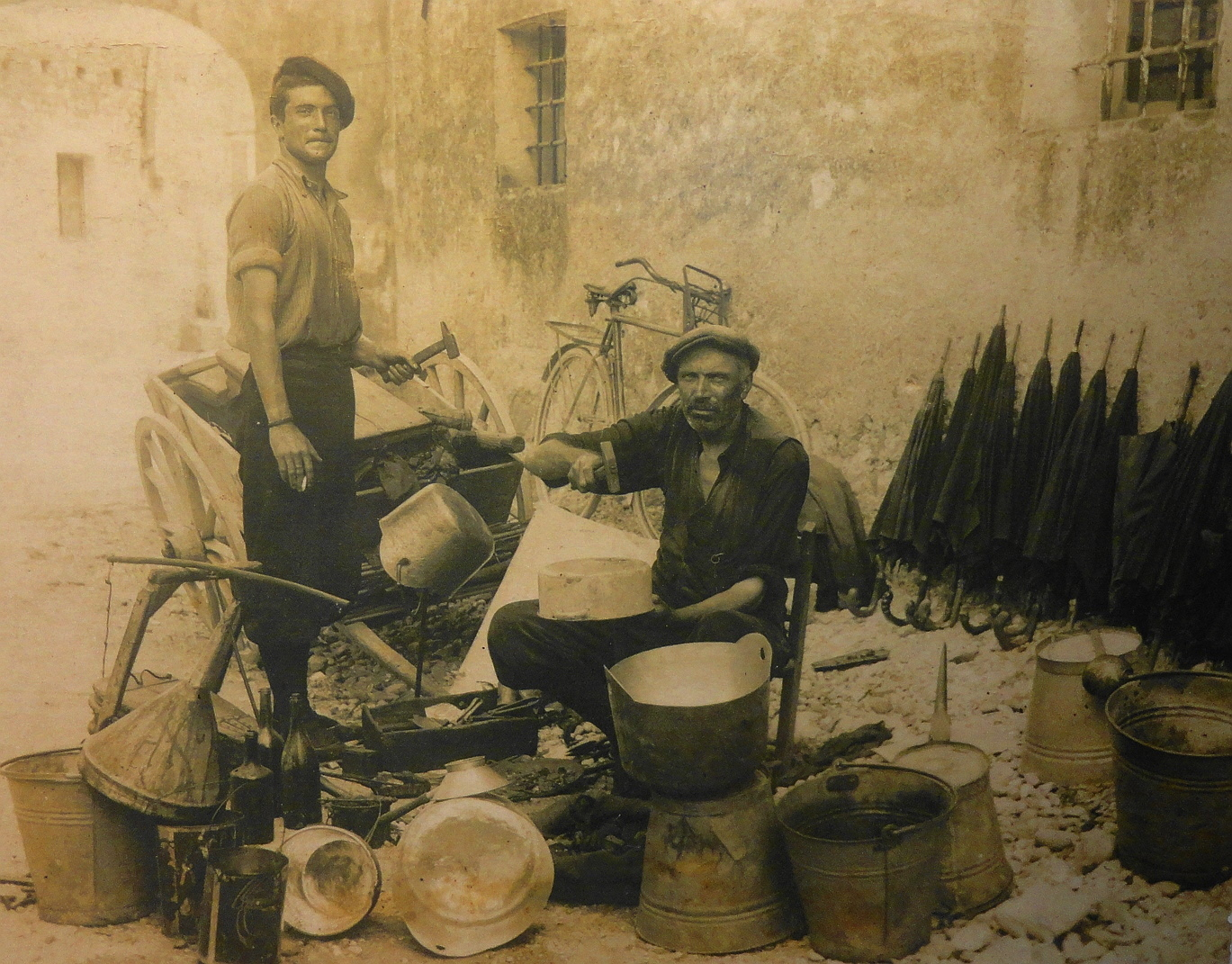 Tinkers at work in Val Resia, Friuli-Venezia Giulia. Photo taken in the Scissors Grinder Museum in Stolvizza, Italy, EU